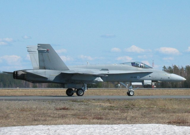 Finnish Air Force F-18 Hornet at Kuopio Airport